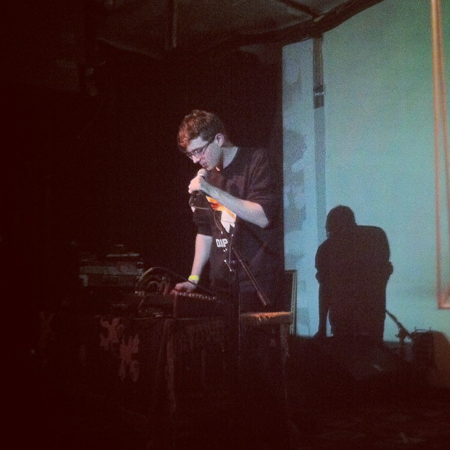 Ricky Eat Acid (Sam Ray) performing at Palisades in Brooklyn, New York on January 23, 2015